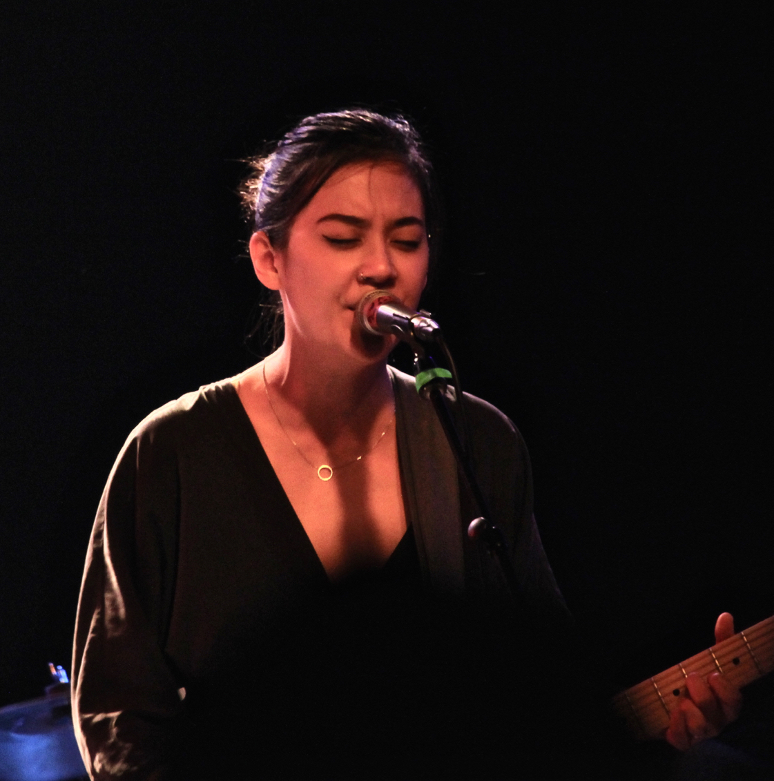 Michelle Zauner of Japanese Breakfast live in 2017